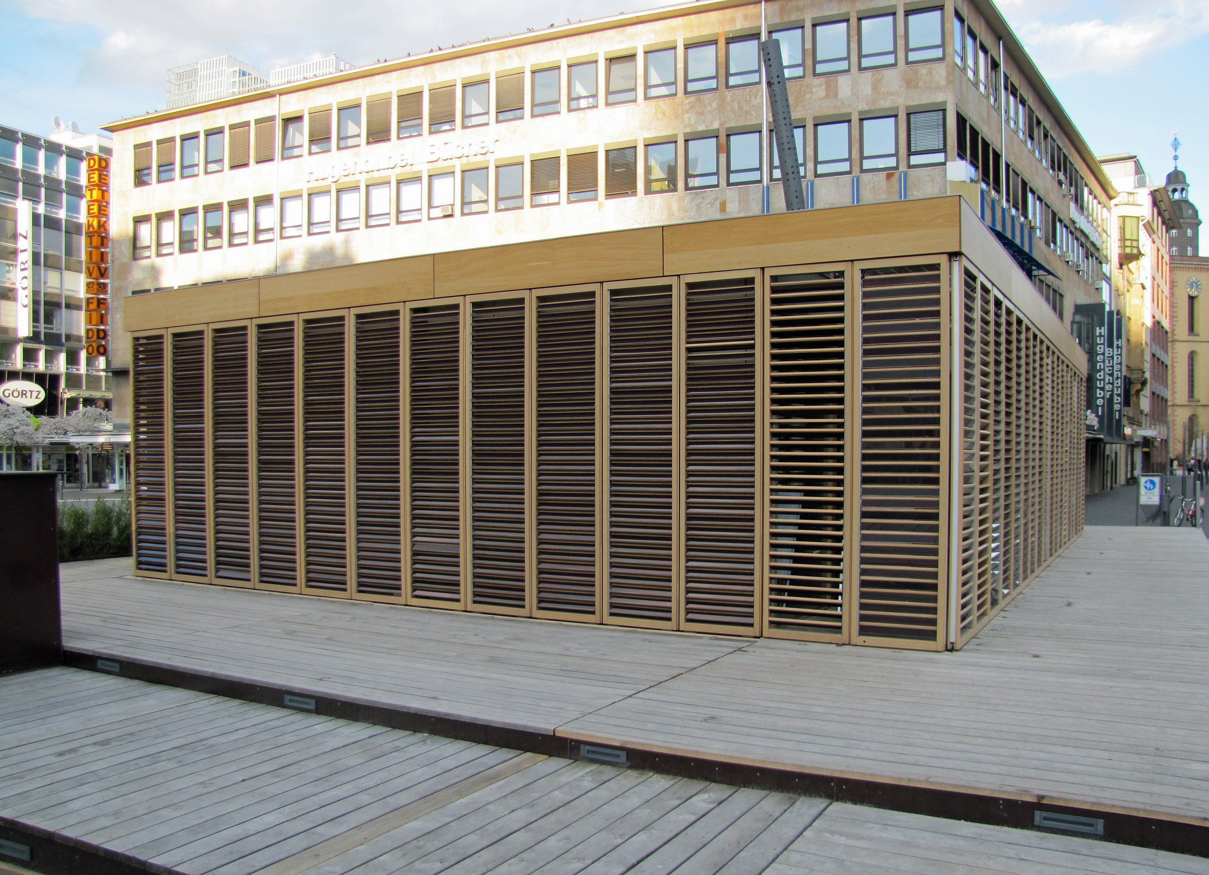 Prototype of a "Plus-Energy-House", 2010, temporary at Rathenauplatz in Frankfurt am Main, Germany.